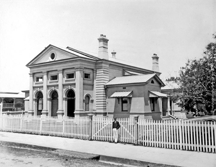 Court House, Mackay. (Alternative name is Mackay Court House and Police Station Complex, Victoria Street, Mackay.)